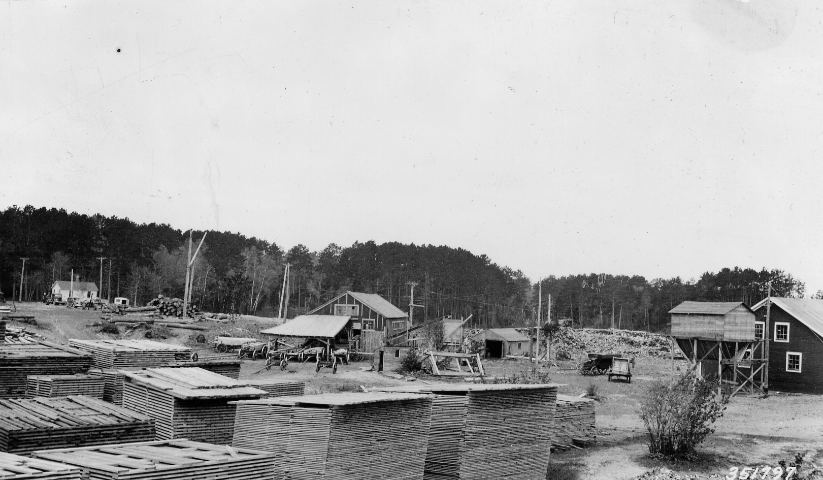 Scope and content: Original caption: F.H. Raisen sawmill (in Center) planing mill and machine shop at right, and office to left. Norway pine forest in background.